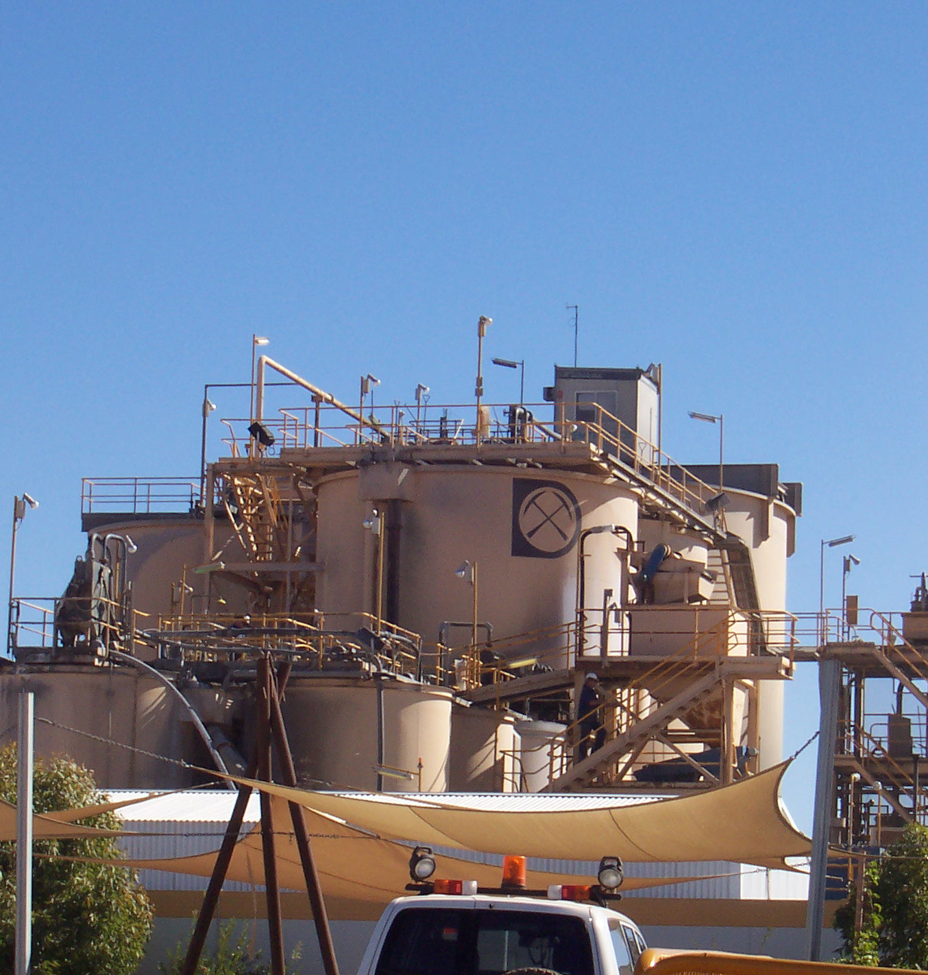 Mill at Challenger Gold Mine, South Australia